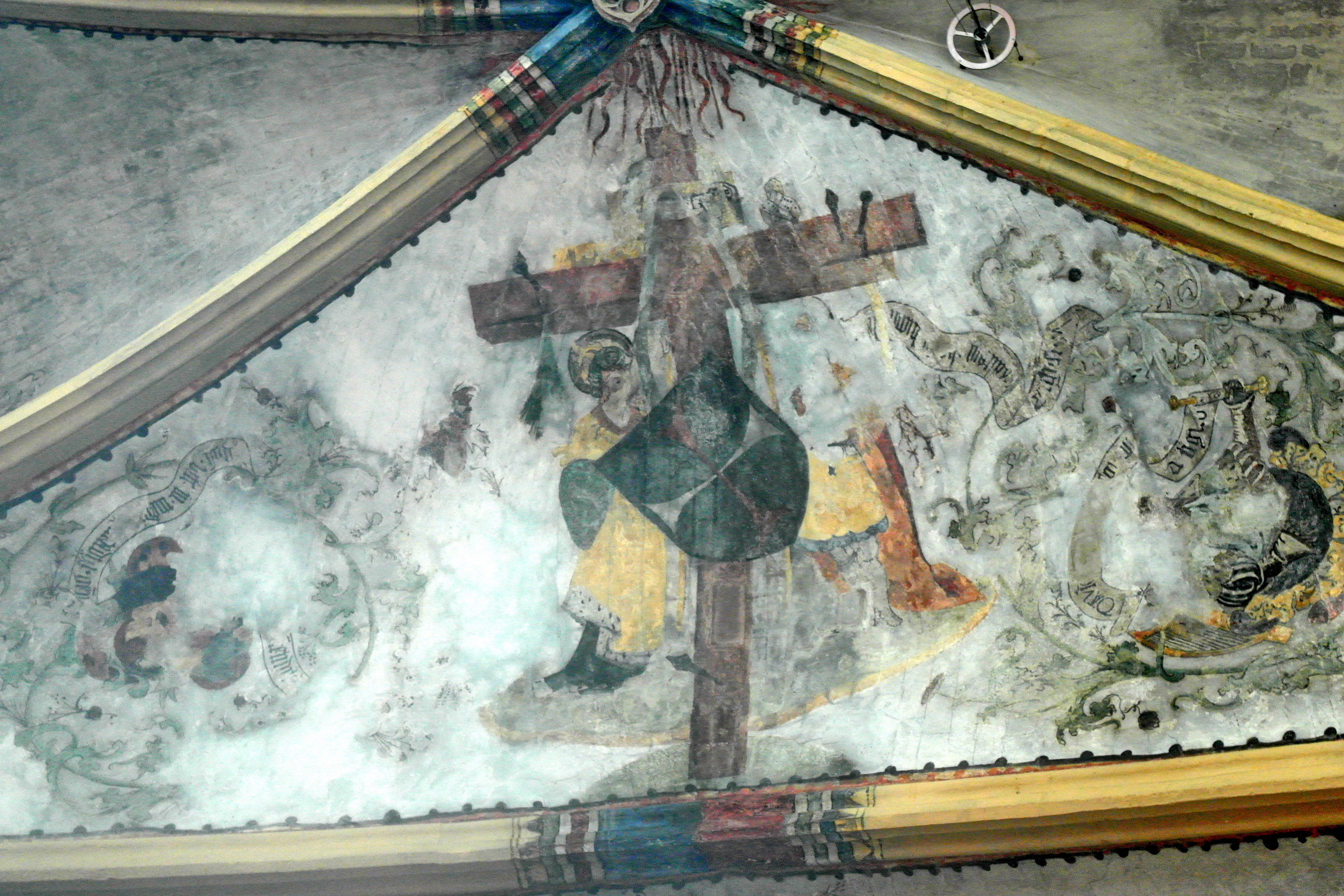 Painted Gothic vaults of Kruisherenkerk in Maastricht, the Netherlands. The Gothic church and monastery of the Croziers (or Crutched Friars) dates from the 15th century and was converted into a luxury hotel (Kruisherenhotel) in 2003-05. The vaults were painted by master Gerardus in 1461 but probably restored after the destructions of 1579.